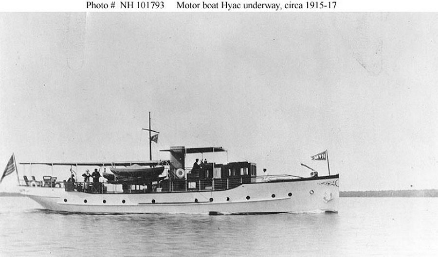 Motorboat Hyac, flying a pennant bearing her name at her bow, in civilian use on the Great Lakes prior to her United States Navy service as patrol vessel USS Hyac (SP-216)